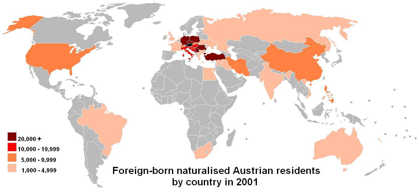 Naturalised foreign-born residents in Austria enumerated in the 2002 Census. Persons born in states since dissolved are apportioned to successor states.